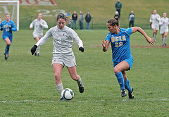 Kiersten playing soccer at WSU